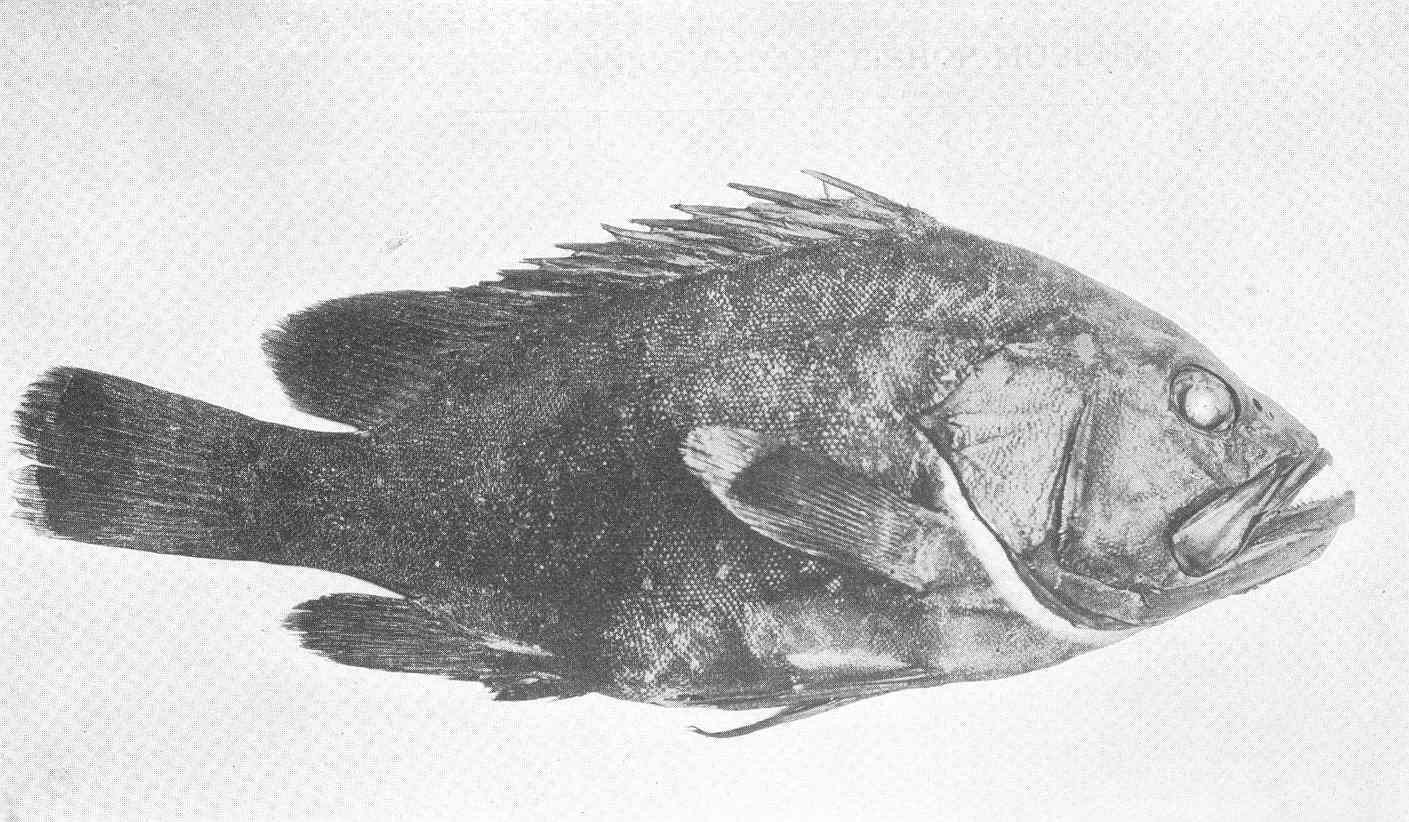 Epinephelus quernus Subject: Epinephelus Tag: Fish